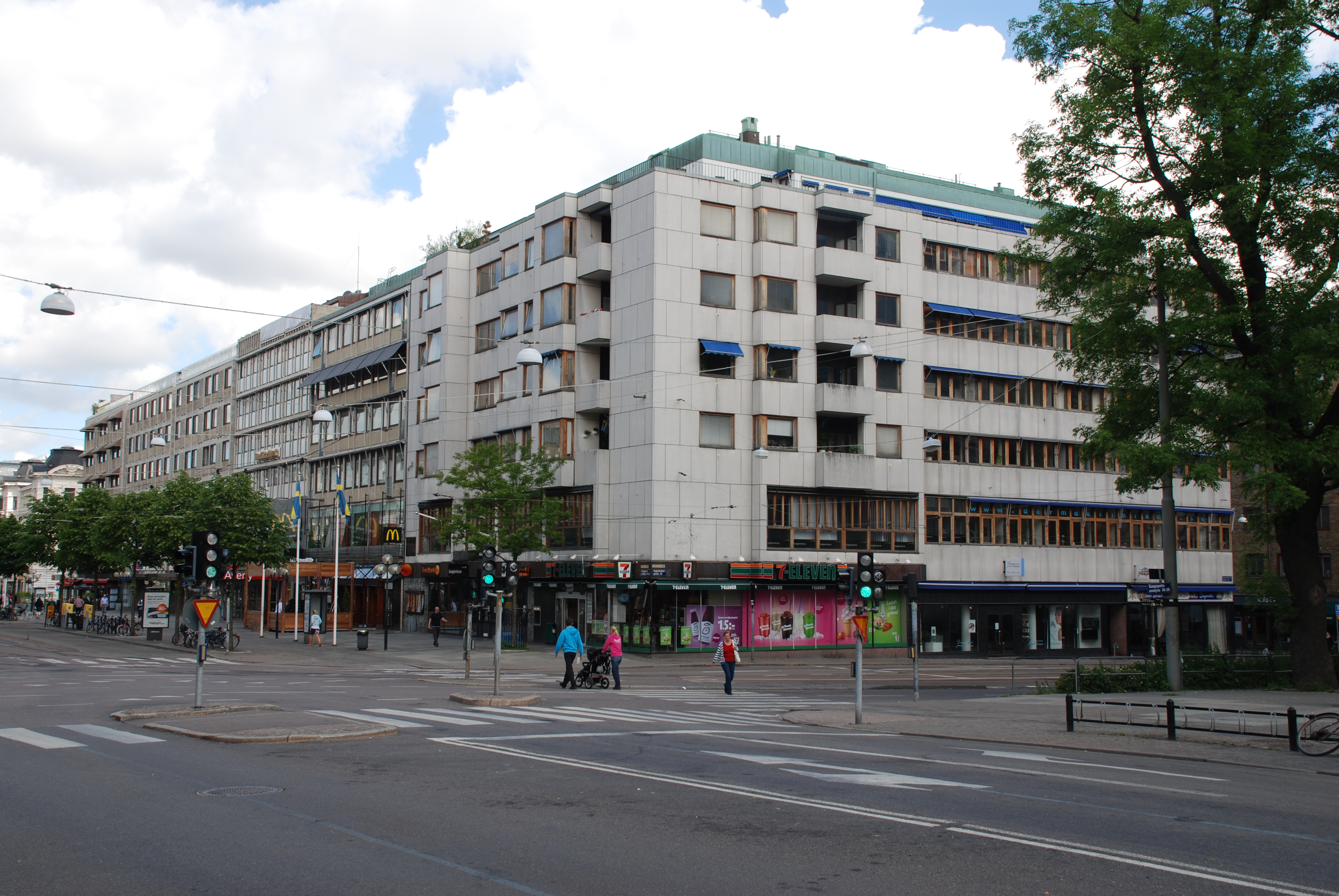 Kungsportsavenyn 34, quarter 56 Sturefors in city part Lorensberg in Göteborg.